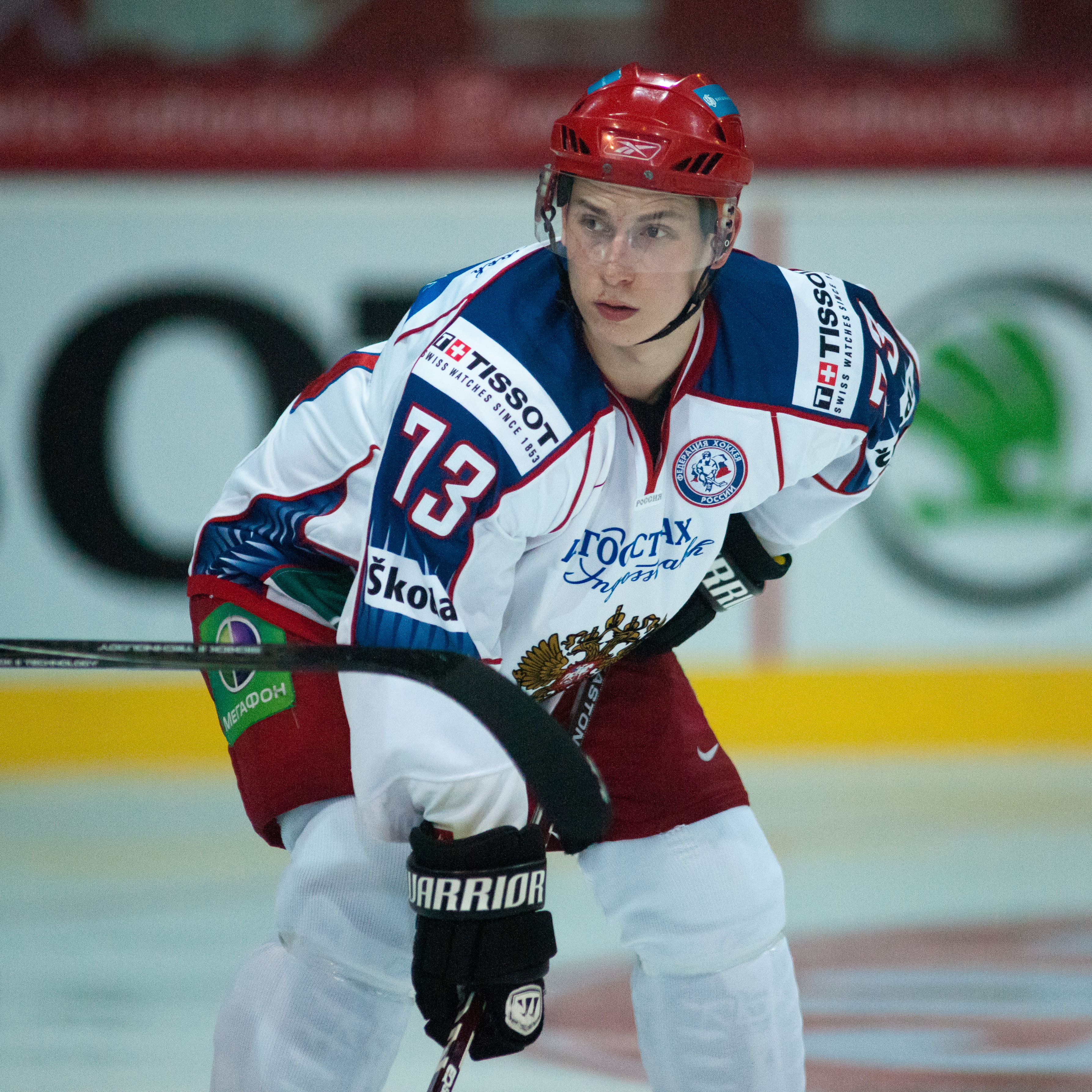 The making of this document was supported by Wikimedia CH. (Submit your project!) For all the files concerned, please see the category Supported by Wikimedia CH. Switzerland vs. Russia, 8th April 2011